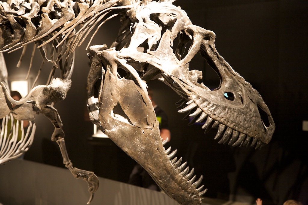 From the "Dinosaur Mummy: CSI" exhibit.